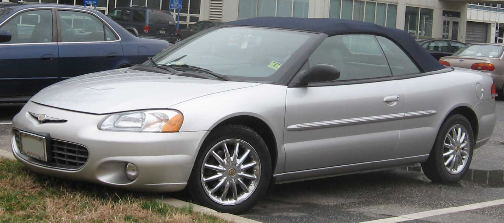 2001-2003 Chrysler Sebring photographed in College Park, Maryland, USA.